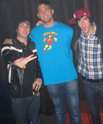 Alex Gaskarth, Cole Dabney & Jack Barakat in Austin, Texas